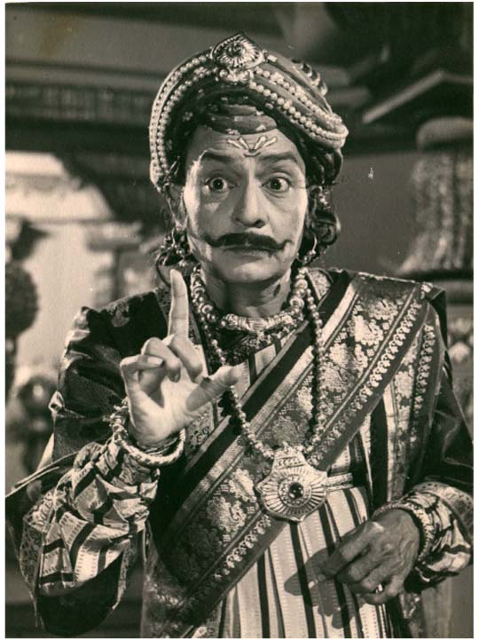 Actor CSR in Movie "Jagadekaveeruni katha"